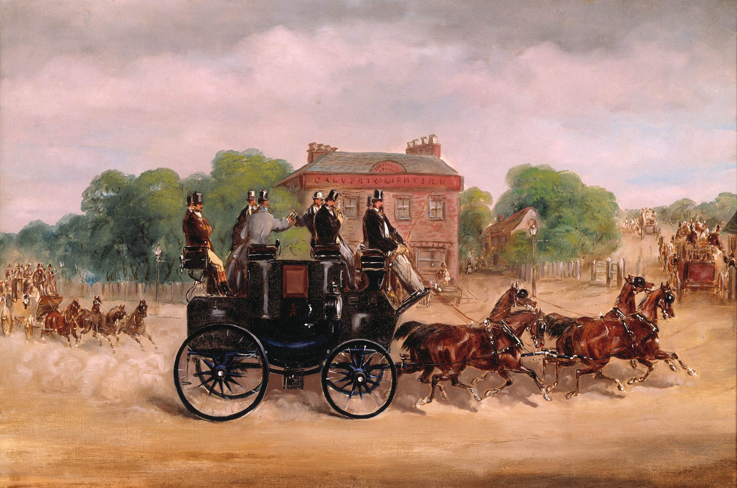 Drags of the Four-in-Hand Club passing Five Bells Tavern, New Cross, with Mr Holroyd, Lord Lonsdale and the Duke of Sutherland on the box of the drag in the foreground